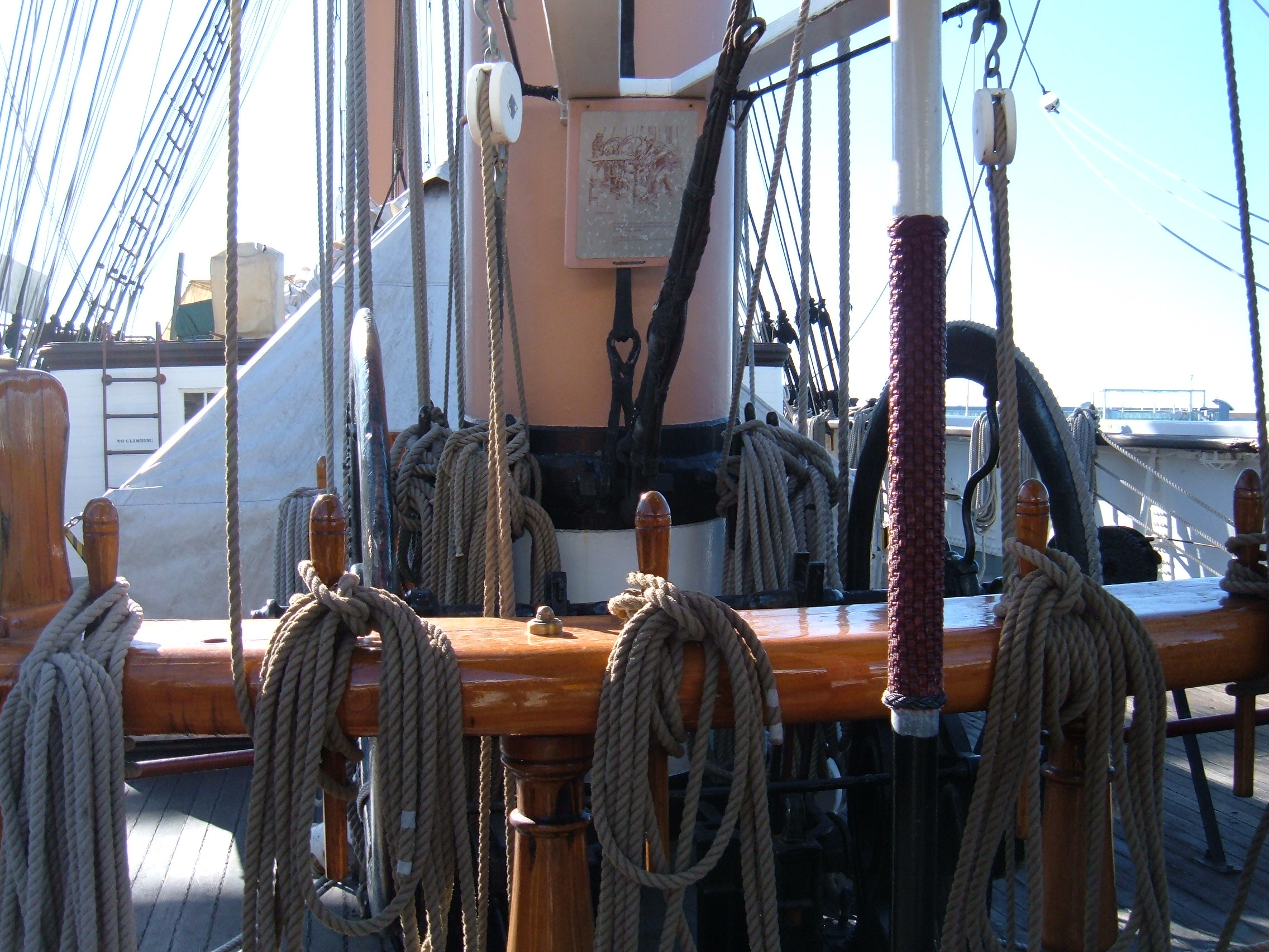 Rigging of the Star of India, part of the Maritime Museum of San Diego in San Diego, California.